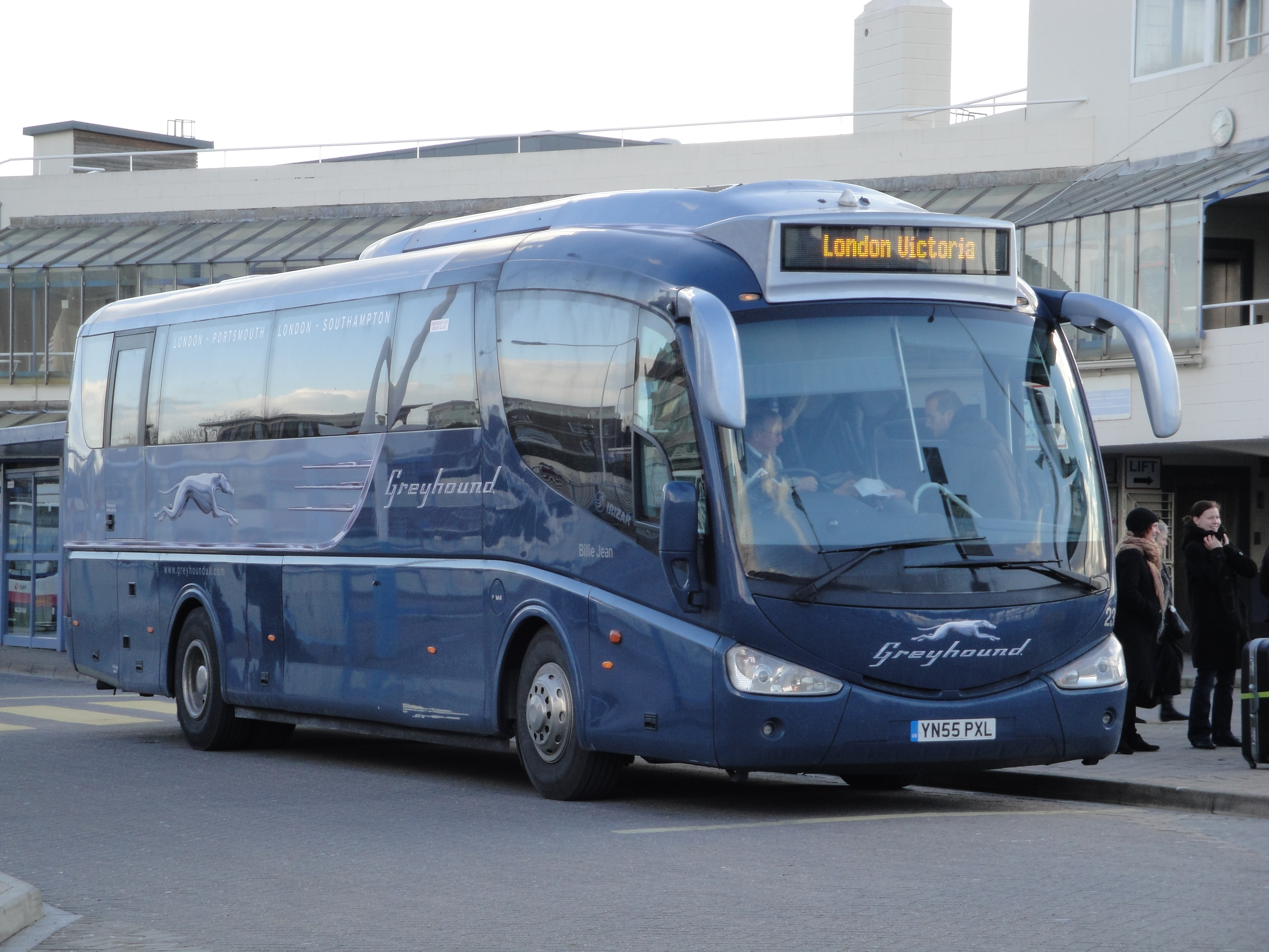 Greyhound UK 23320 Billie Jean (YN55 PXL), a Scania K114EB/Irizar in The Hard Interchange, Portsmouth, Hampshire.